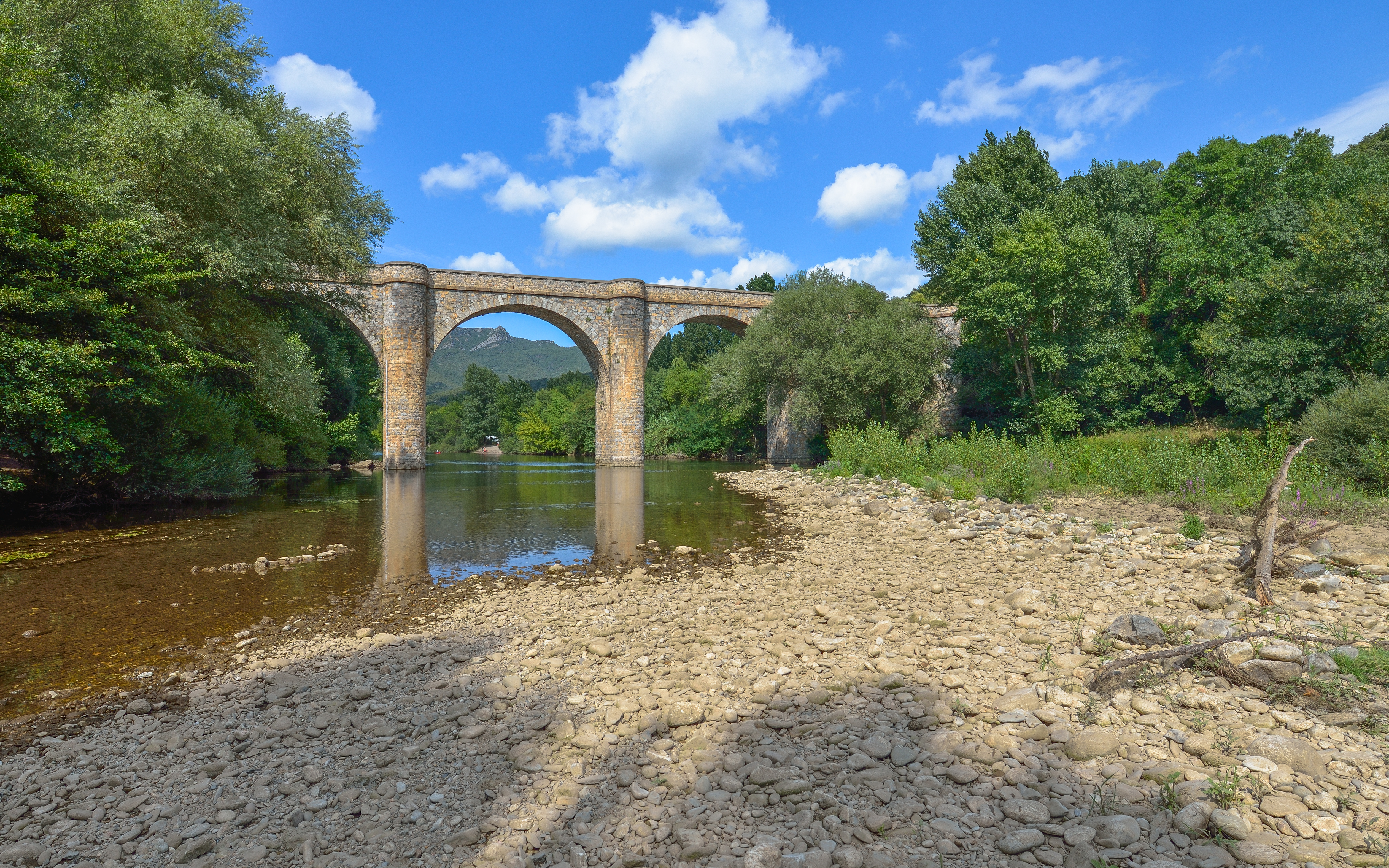 Bridge of Ceps, a 19th century six arch bridge, over the Orb River. Hamlet of Ceps, Roquebrun, Hérault, France. Haut-Languedoc Regional Natural Park.